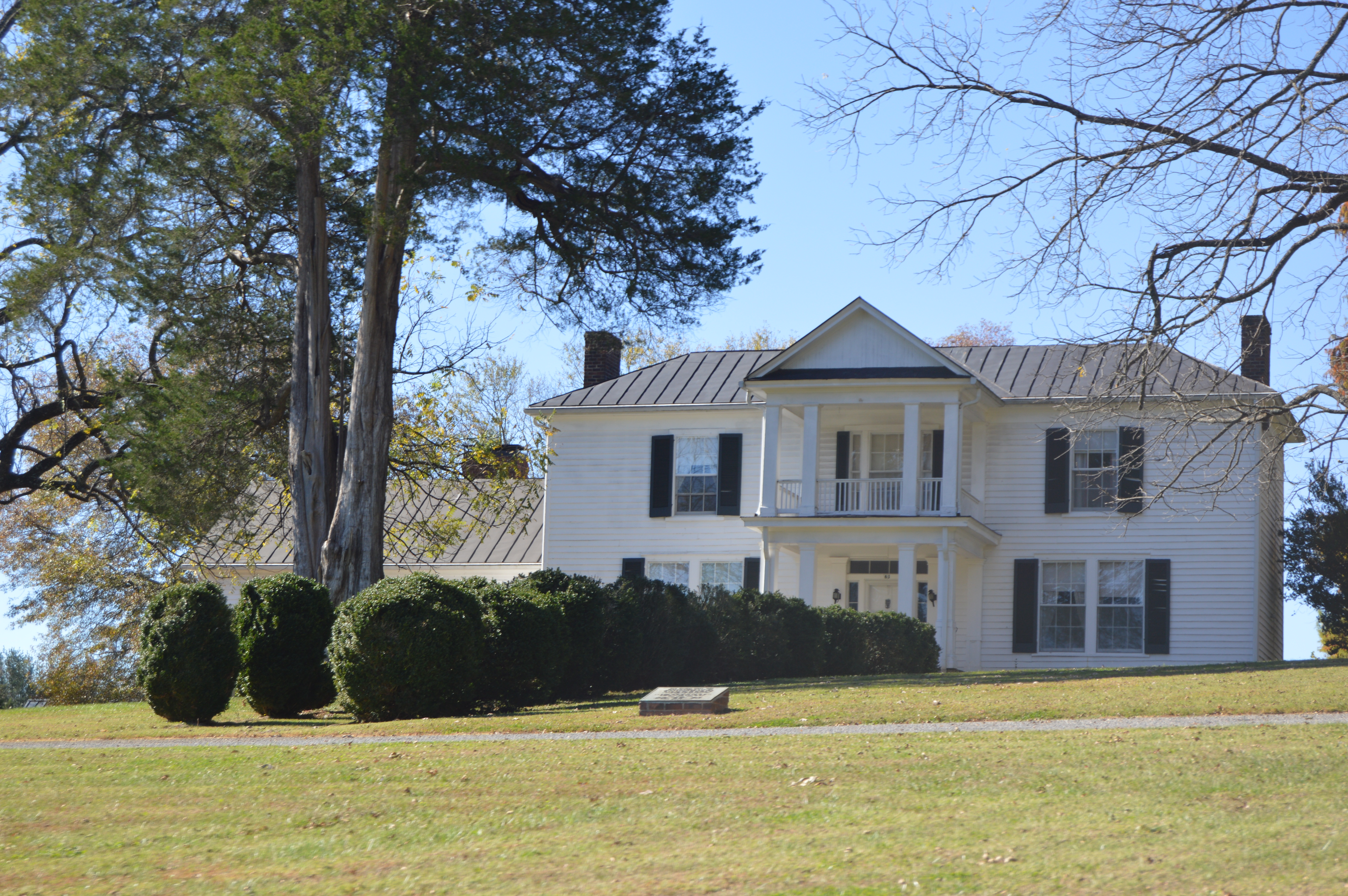 Front of The Farm, located on Lawndale Drive in Rocky Mount, Virginia, United States. Built in 1856, it is listed on the National Register of Historic Places.